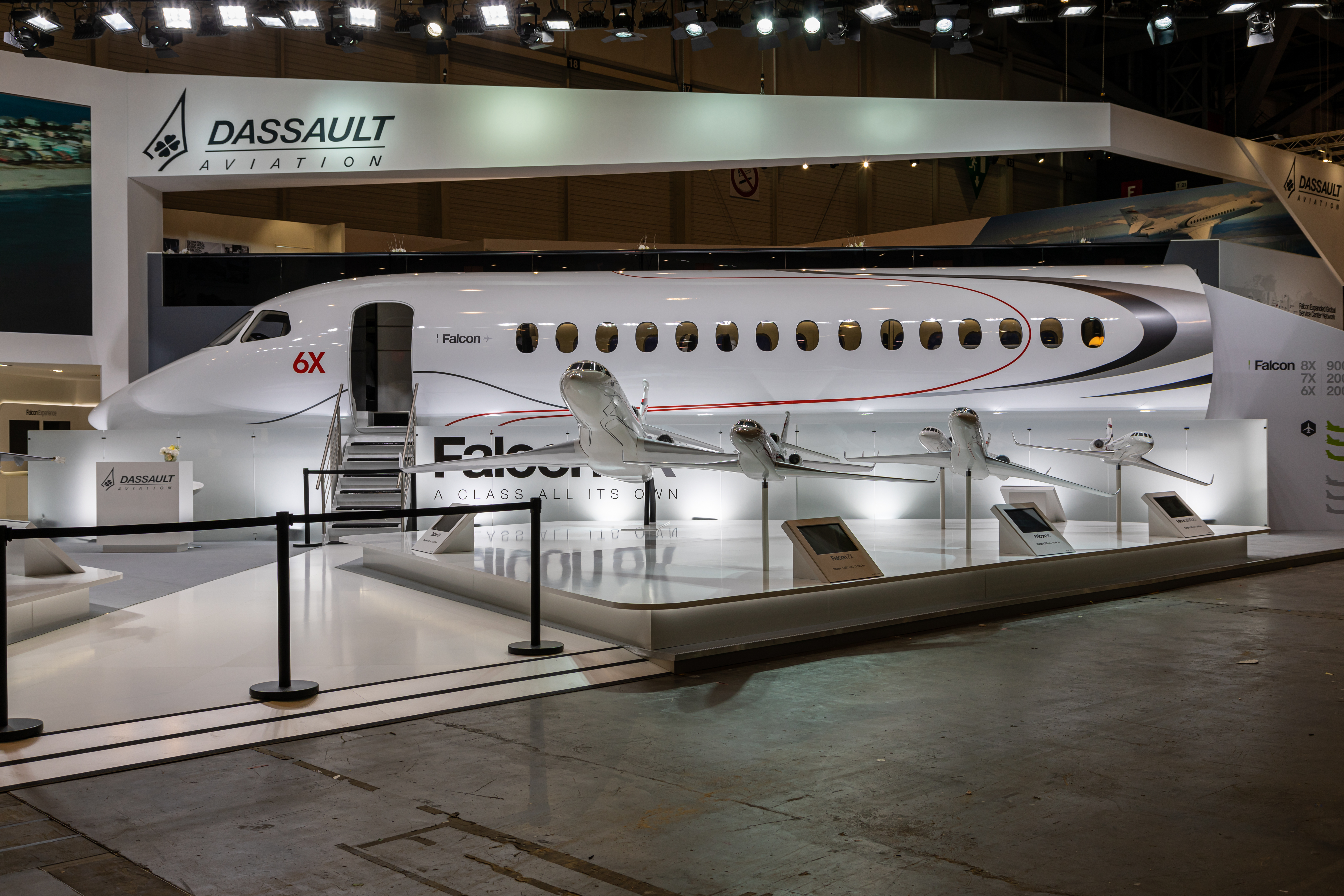 EBACE 2019, Palexpo, Switzerland